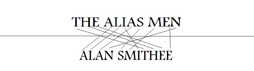 The origin of the anagram Alan Smithee